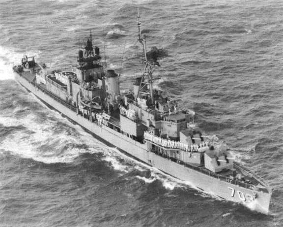 The U.S. Navy destroyer USS Wallace L. Lind (DD-703) underway in the 1960s following her FRAM II-modernisation.